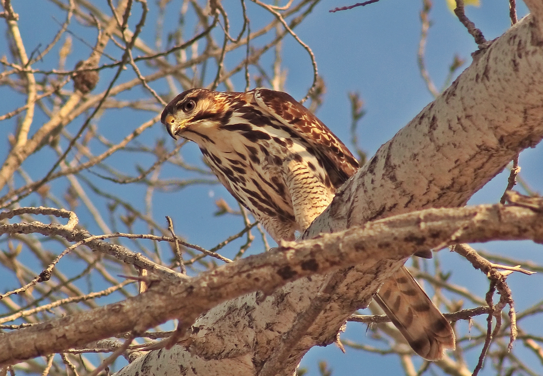 juvenile Gray Hawk (Asturina plagiata or Buteo plagiatus), Mexican goshawk.